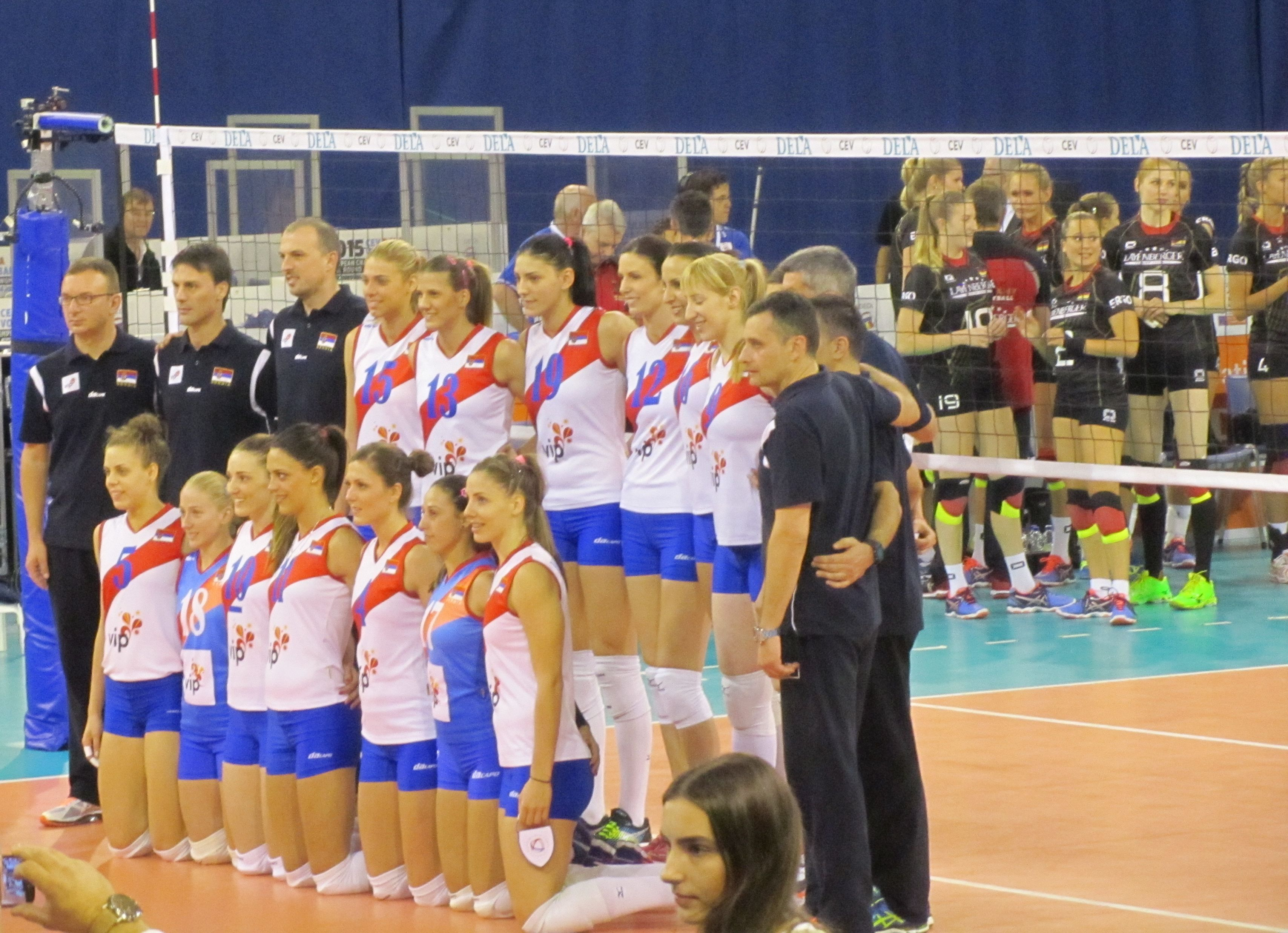 Serbia women's national volleyball team before the match vs Germany at the European championship 2015 in Eindhoven (Netherlands)